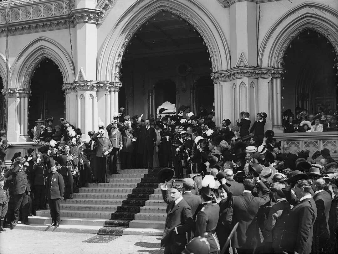 Lord Plunket declaring New Zealand a Dominion, 1907 Source: Holden Republic website[dead link] This New Zealand work is in the public domain in New Zealand, because its copyright has expired or it is not subject to copyright (details). According to the New Zealand Copyright Act of 1994 as elaborated on by the Standing Committee on Copyright of the Library and Information Association of New Zealand (LIANZA), as of May 2011: Type of material Copyright has expired if ... A For photographs, manuscripts, archives, music scores, maps, paintings, and drawings published anonymously, under a pseudonym or the creator is unknown:photo taken or work published prior to 1 January 1969 (50 years ago) B Any works by the Crown (see Crown copyright)dated 1944 or earlier C Published works1 by the Crown after 1945No works1 until 2045 D For photographs, manuscripts, archives, music scores, maps, paintings, and drawings (except A-C)Creator died before 1 January 1969 (50 years ago) E For oral histories, music, computer-generated work and spoken word sound recordingsReleased before 1 January 1969 (50 years ago) 1 Some government publications are not subject to copyright, including bills, acts, regulations, court judgments, royal commission and select committee reports, etc. See references [1] or [2] for the full